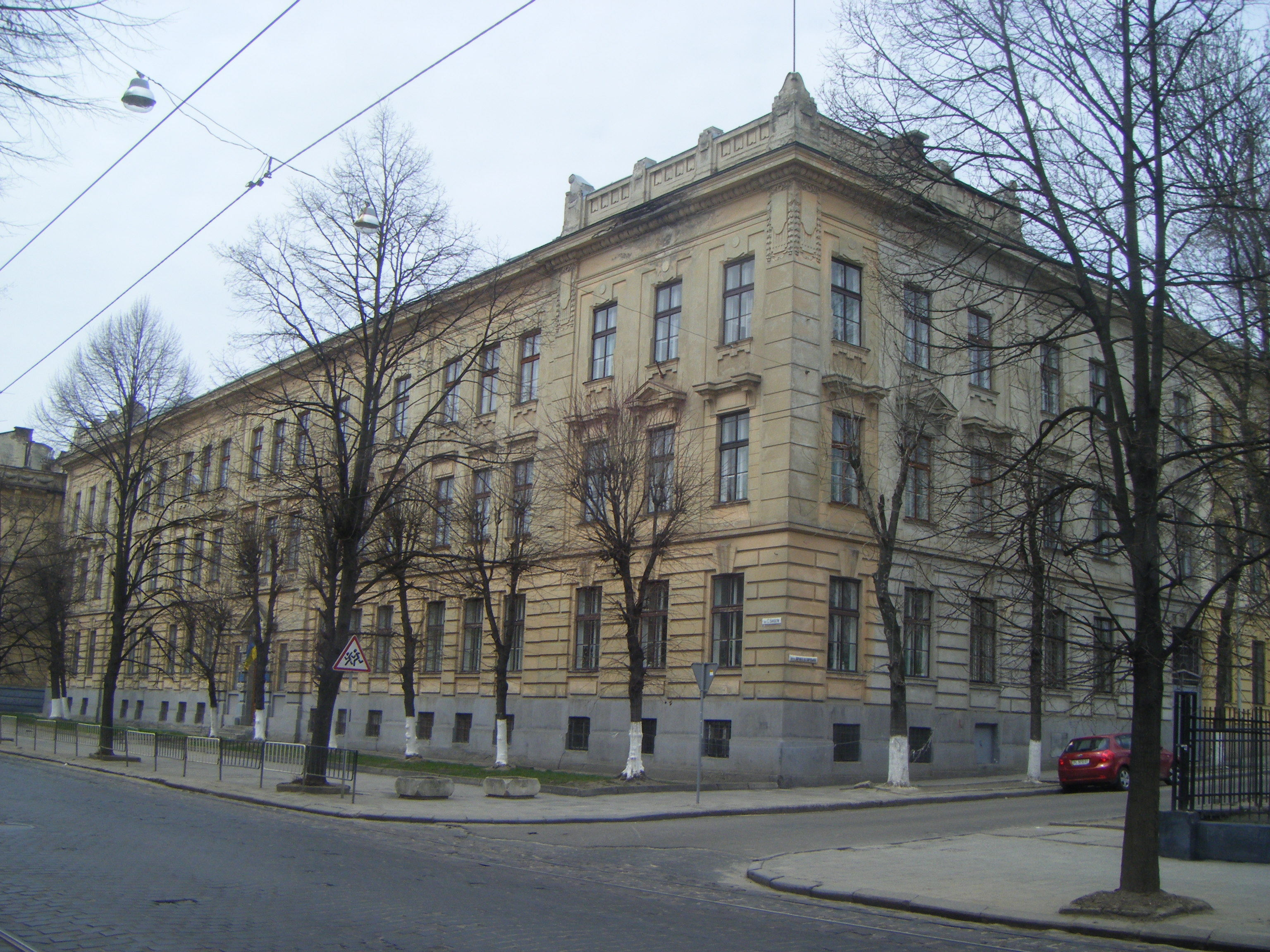 Lviv Academic Gymnasium at National University "Lviv Polytechnic"